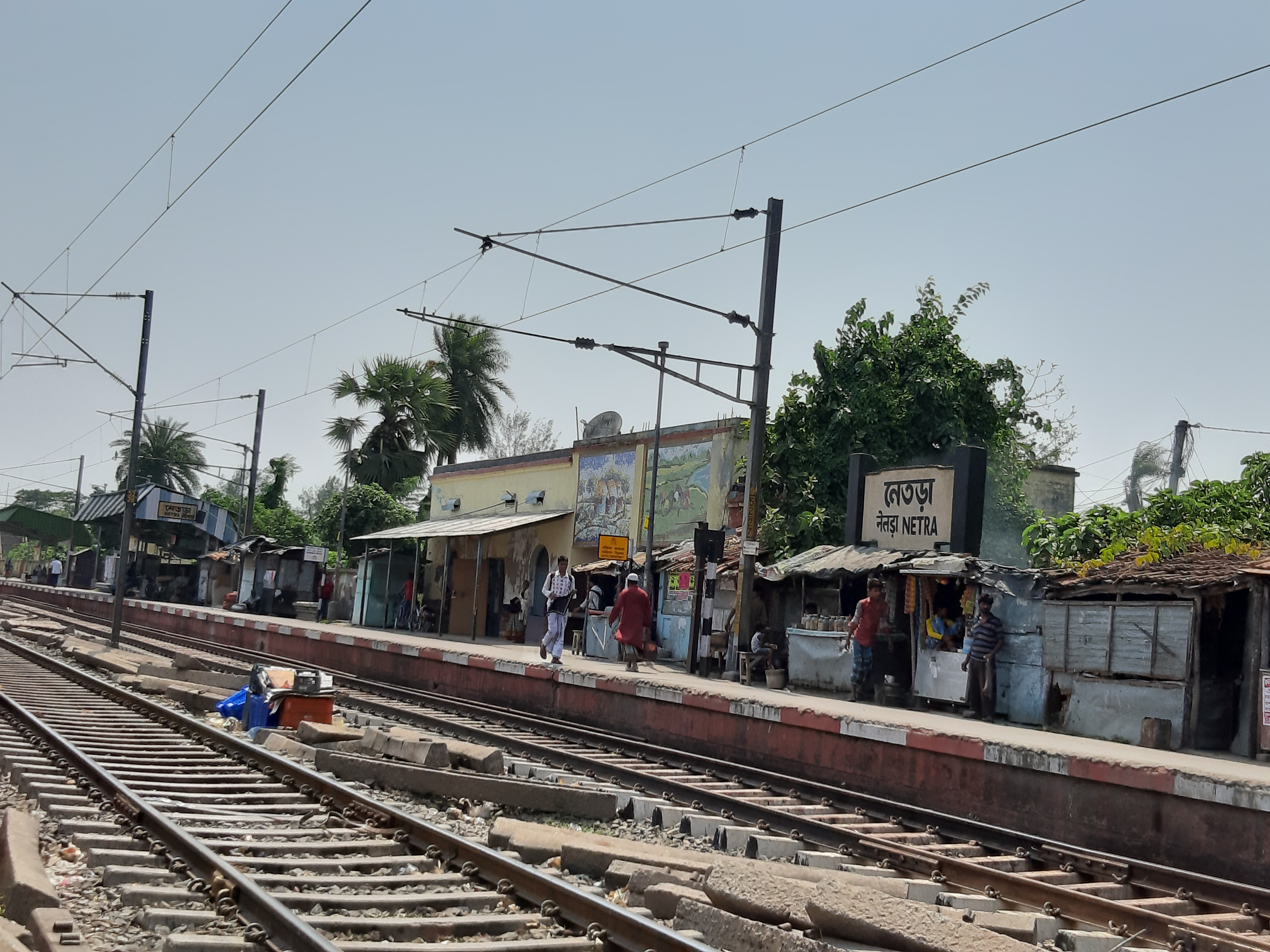 Baruipur to Diamond Harbour Railway